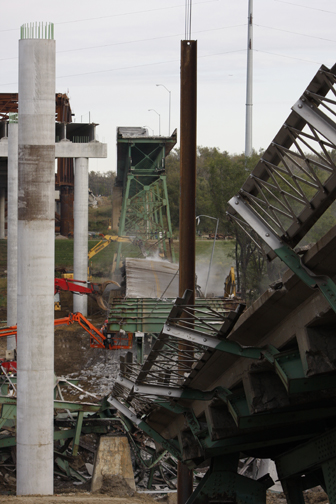 On October 4th, 2009 the South Omaha Bridge was blown up to make room for a new bridge.